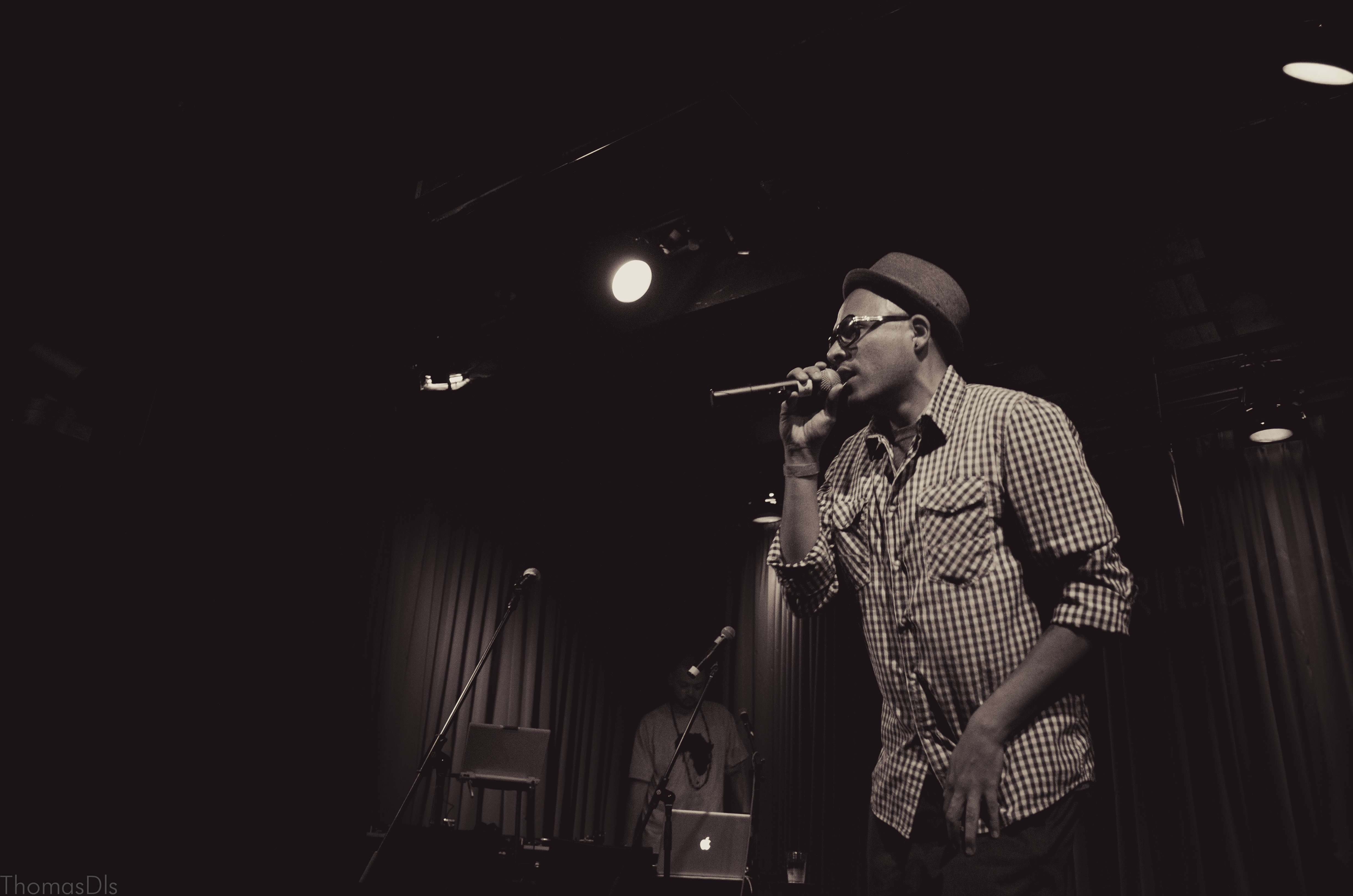 Bocafloja record release concert. March 2012. 92Y Tribeca, NY, NY.